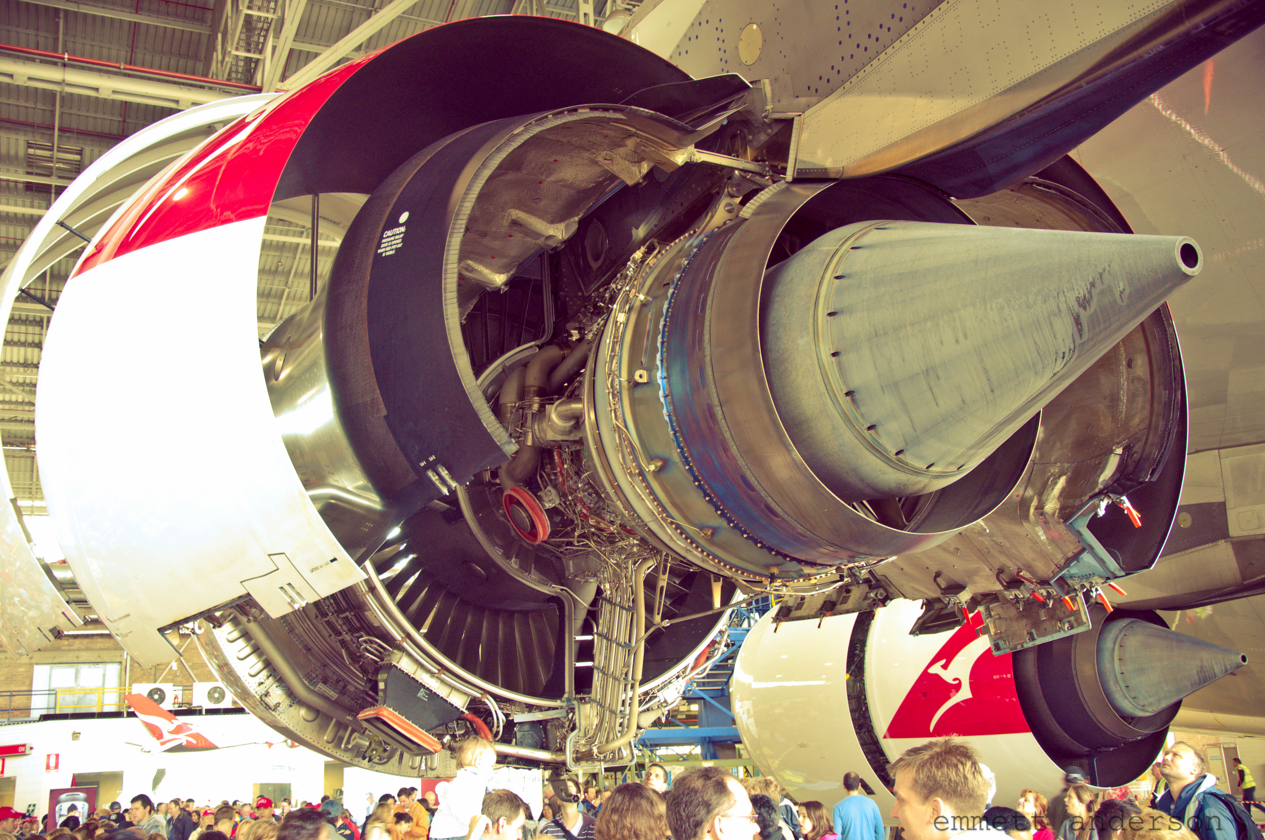 Qantas 90th Birthday A380 Engine Back Side Exhaust